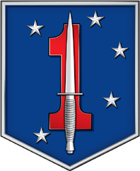 1st Marine Raider Battalion (MARSOC) Logo